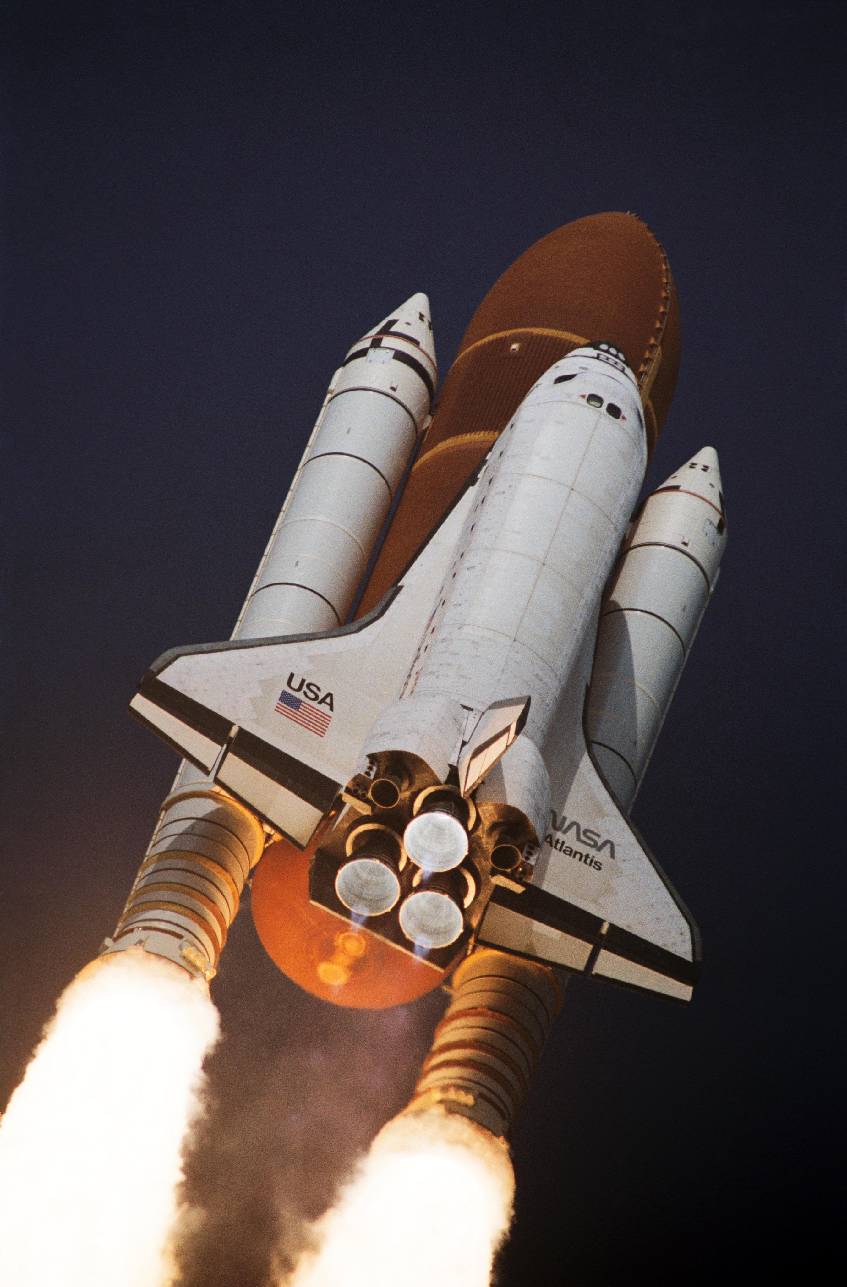 STS-45 Atlantis, Orbiter Vehicle (OV) 104, begins its roll maneuver after liftoff from a Kennedy Space Center (KSC) Launch Complex (LC) Pad at 8:13:40:048 am (Eastern Standard Time (EST)). This low angle view shows OV-104 (topside), its external tank (ET), two solid rocket boosters (SRBs), and three space shuttle main engines (SSMEs). Exhaust plumes billow out the SRB skirts. The diamond shock effect produced by the SSMEs is visible.